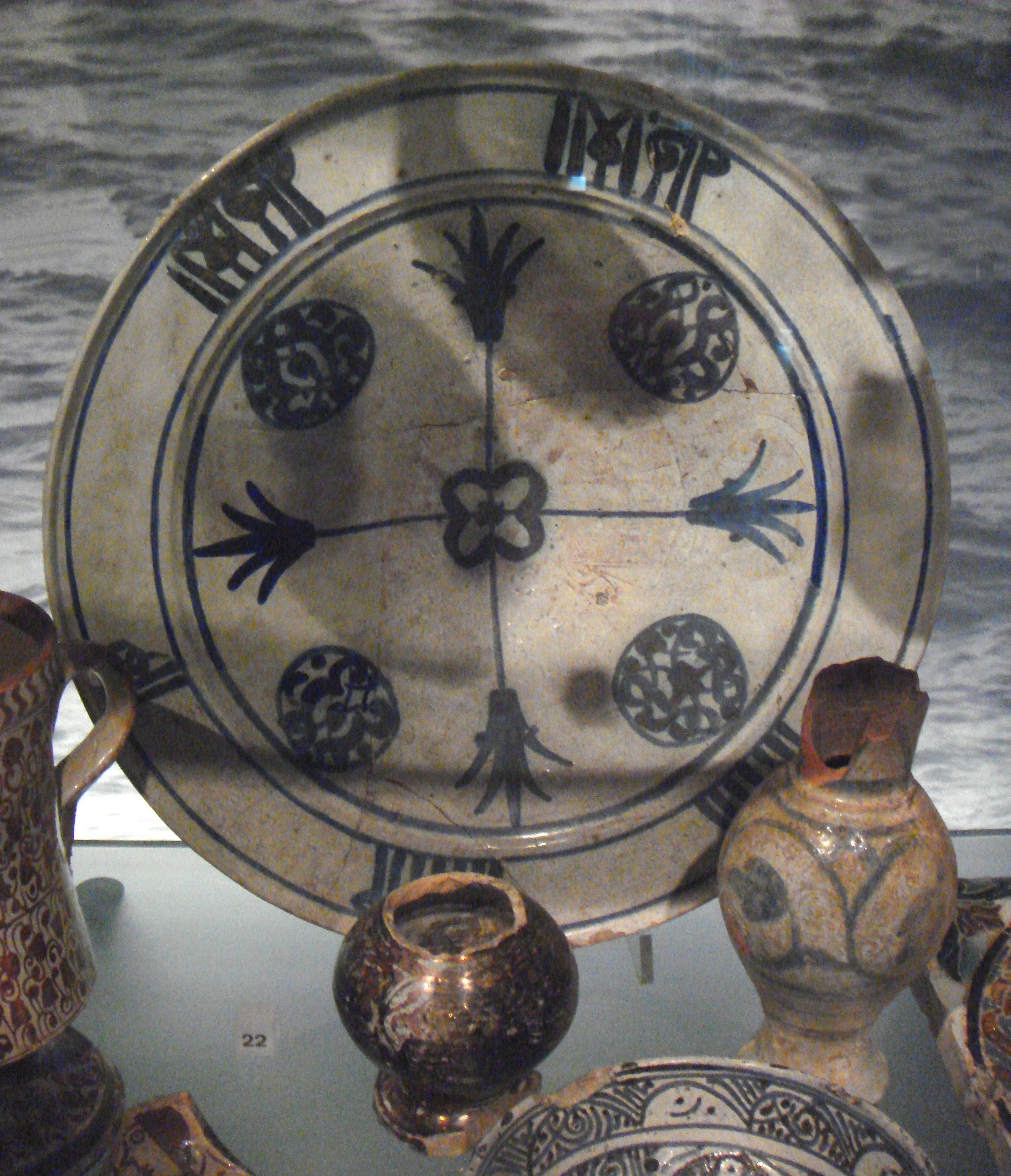 Early_1500_Andalusian_dish_with_pseudo_Arabic_script_around_the_edge_excavated_in_London.